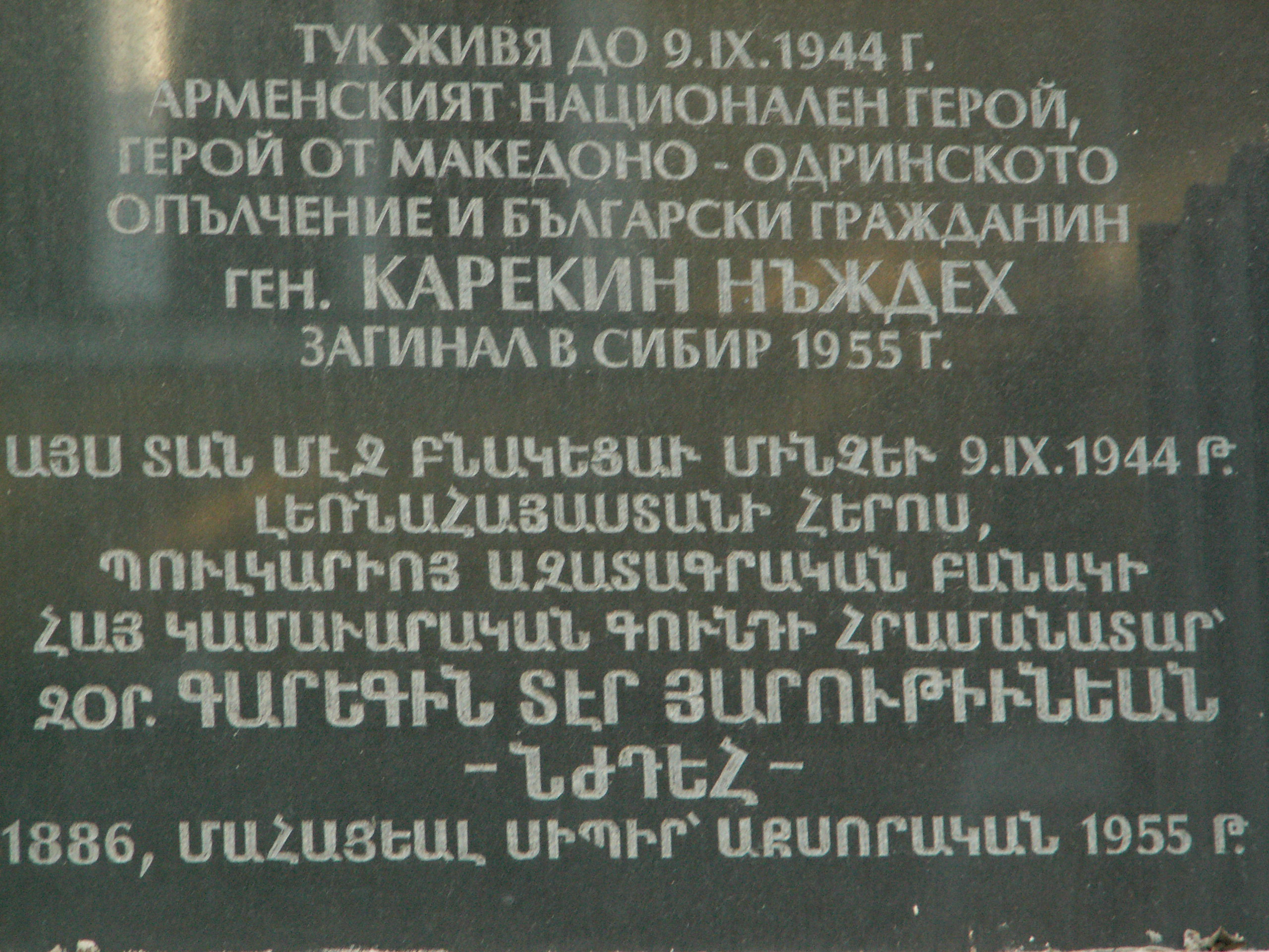 Commemorative plaque in Bulgarian and Armenian on Garegin Njdeh's house in Sofia. Translation: "Here, until 9 September 1944, lived the Armenian national hero, hero of the Macedonian-Adrianopolitan Volunteer Corps, and citizen of Bulgaria, general Garegin Njdeh, perished in Siberia in 1955"